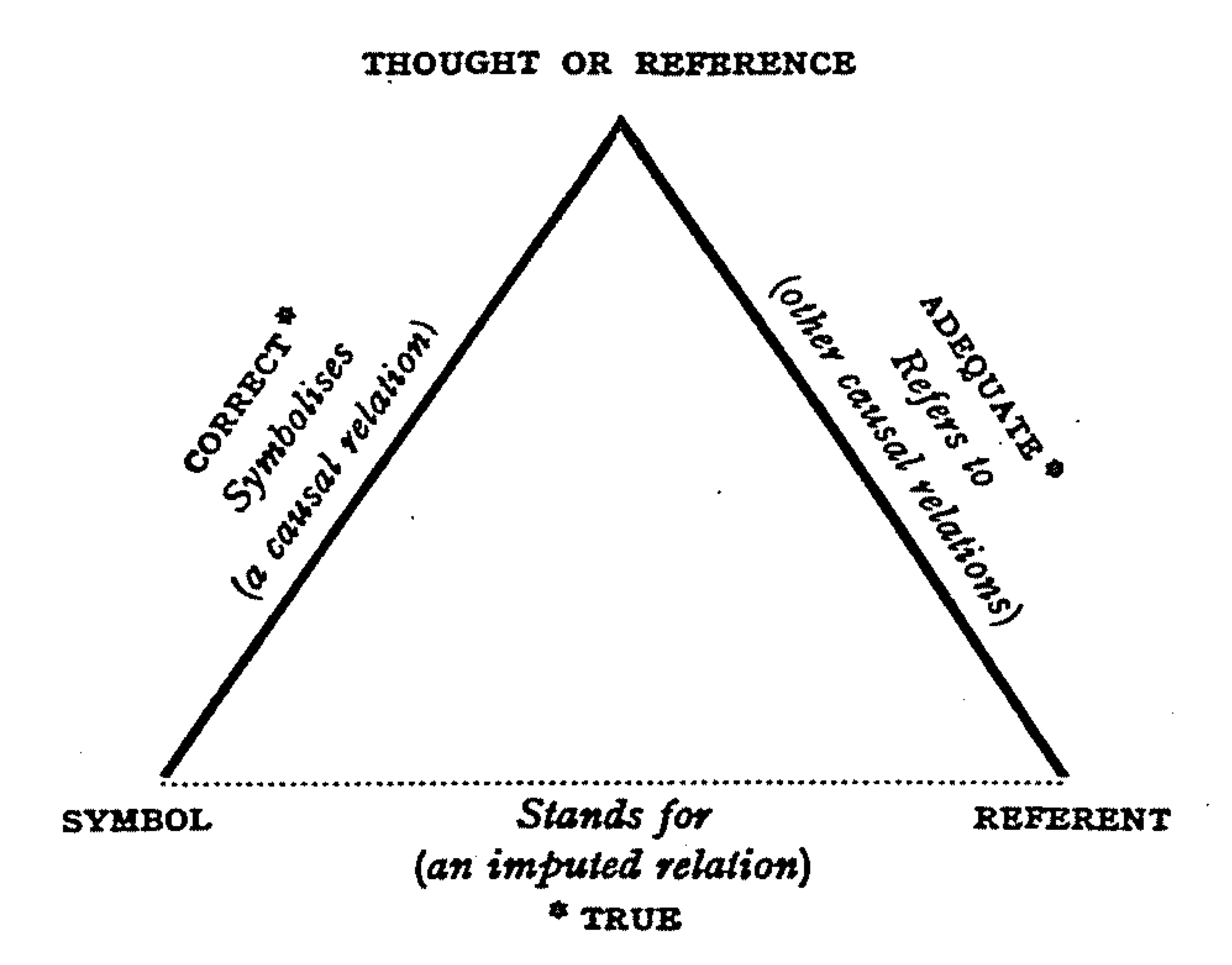 Ogden Semiotic Triangle (aka Semantic Triangle)